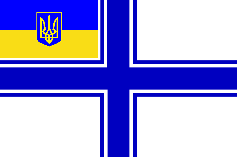 Naval Ensign of Ukraine, 1993. Reference: флаги флота Украины.